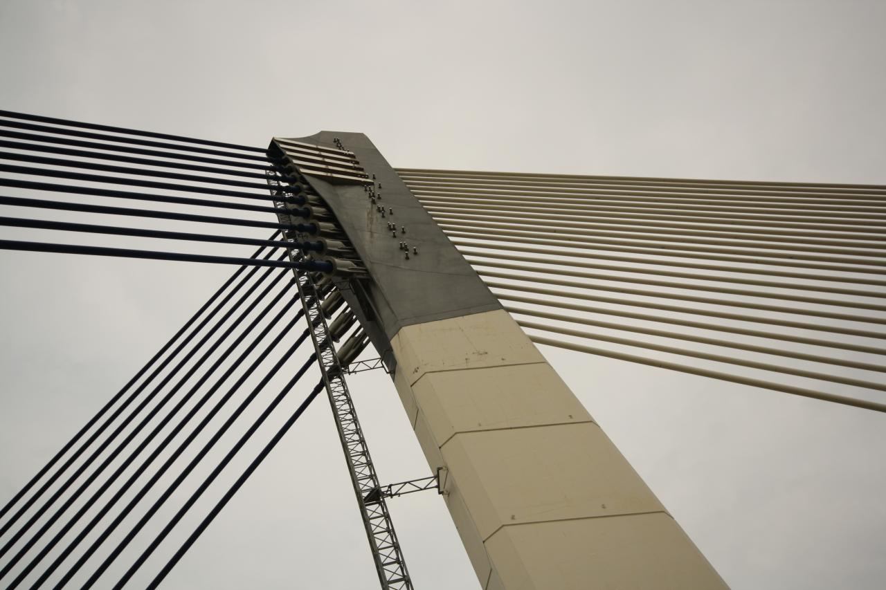 The Seri Saujana Bridge is a combination of arch and cable-stayed technique This was taken using Canon EOS 1000D